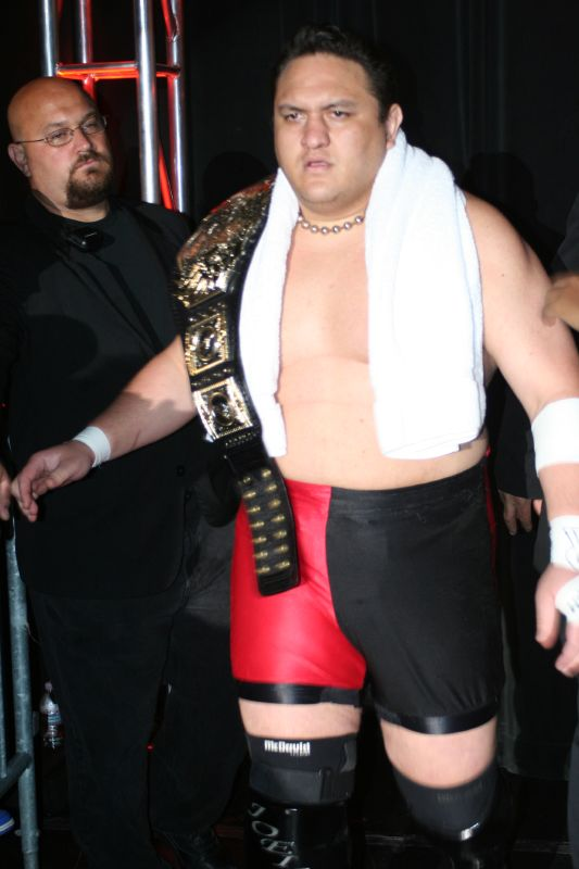 Professional wrestler Samoa Joe with the TNA World Heavyweight Championship belt at a TNA house show